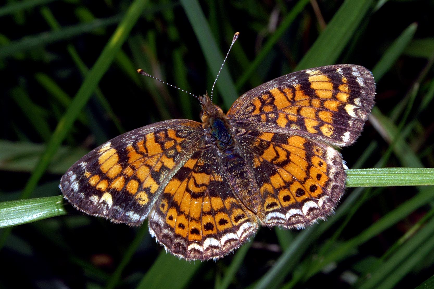 A Pearl Crescent butterfly in the late afternoon sun. Taken by Kenneth Dwain Harrelson on May 7th, 2007.